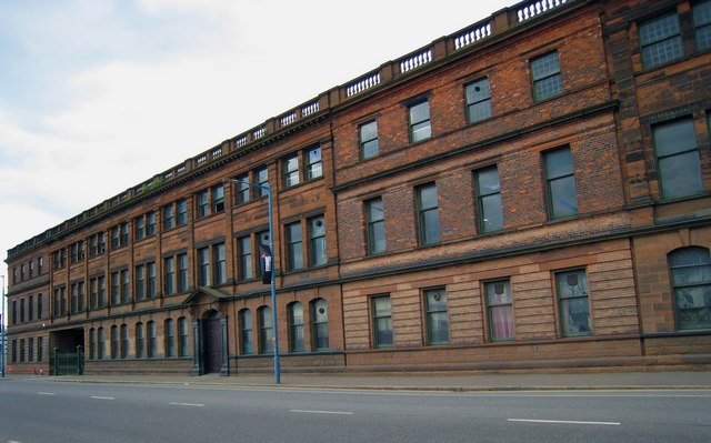 Former Harland & Wolff Headquarters Building & Drawing Offices Former Harland & Wolff Headquarters Building & Drawing Offices, Queen's Island - B2 listed (currently under review) c 1900 - 1919 Long, somewhat Mannerist, this three-storey office block in sandstone and brick was built in stages between c.1900-1919. The building was the administration and drawing office centre for the world famous Harland and Wolff shipyard. The offices of Lord Pirrie, Thomas Andrews and Alexander Carlisle were located in this building. The oldest sections of the building appear to be the two former Drawing Offices, which retain a cathedral-like atmosphere and which are located to the ground floor rear of the building. Although the building contains a number of other drawing offices e.g. the Admiralty Drawing office, it is the association of the two grand ground floor Drawing Offices with the production of both the concept design and detailed construction drawings for RMS Titanic & Olympic for which it is best known. The building was the hub of the Harland and Wolff empire which at its peak had over 50,000 employees in the UK - 30,000 in Belfast. The Headquarters building remained in use by Harland and Wolff until October 1989. However now owned by Titanic Quarter Ltd, it represents the ‘jewel in the crown' in the regeneration of the 185 acre Titanic Quarter development site.